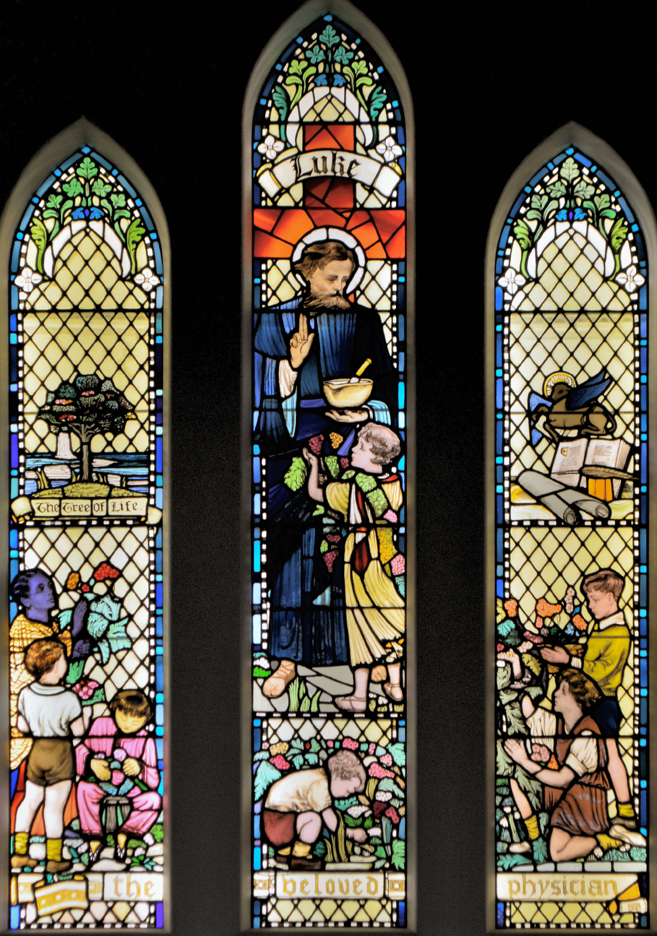 Surbiton Hill Methodist Church, stained glass window of St Luke by Maude Bishop (1947). In memory of Herbert Samuel Durbin, Surbiton’s first Charter Mayor and Trustee of the church. The details recorded by Maude Bishop read;- ‘Luke the physician is the principal figure and there are children of various nations gathering for healing. The floral garland, based on Avens or Herb Benedicta which, according to ancient folk lore, is supposed to heal all ills. The panels on either side of Luke represent 1) the passage from Revelation 22: 1-2, showing the river of water of life; also the tree bearing twelve manner of fruits. 2) Luke’s evangelistic symbol, the winged ox, together with parchment and quill for writing the gospel’